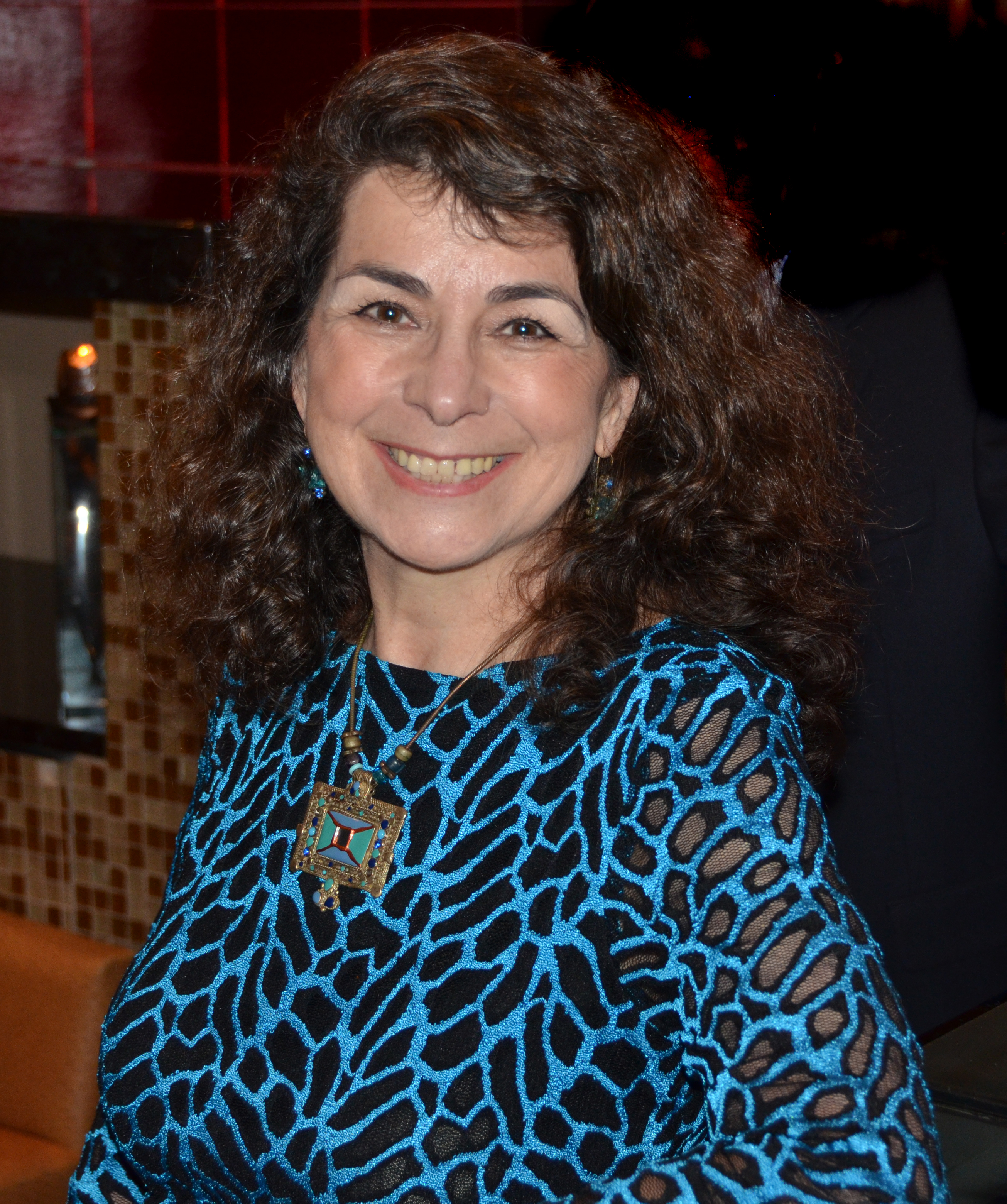 Director Aviva Kempner